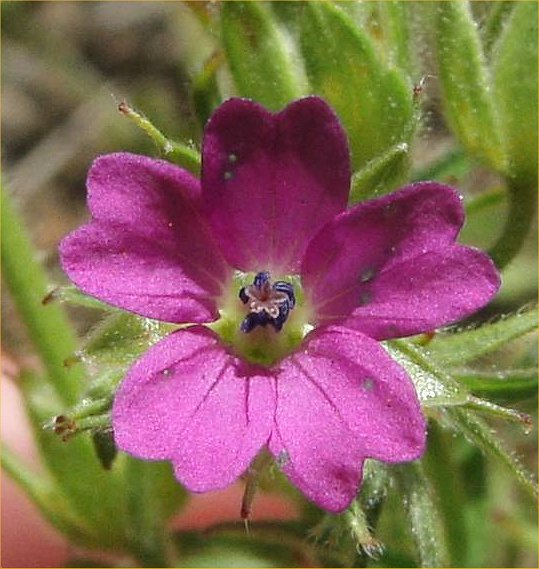 Geranium dissectum flower in Cologne, Germany.